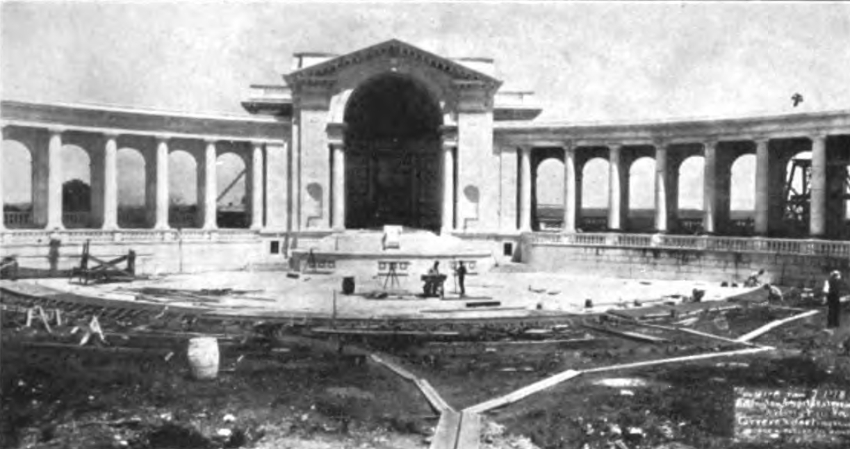 Looking east from the west entrance of Memorial Amphitheater across the unfinished amphitheater toward the stage in 1918. At Arlington National Cemetery in Arlington County, Virginia, in the United States.